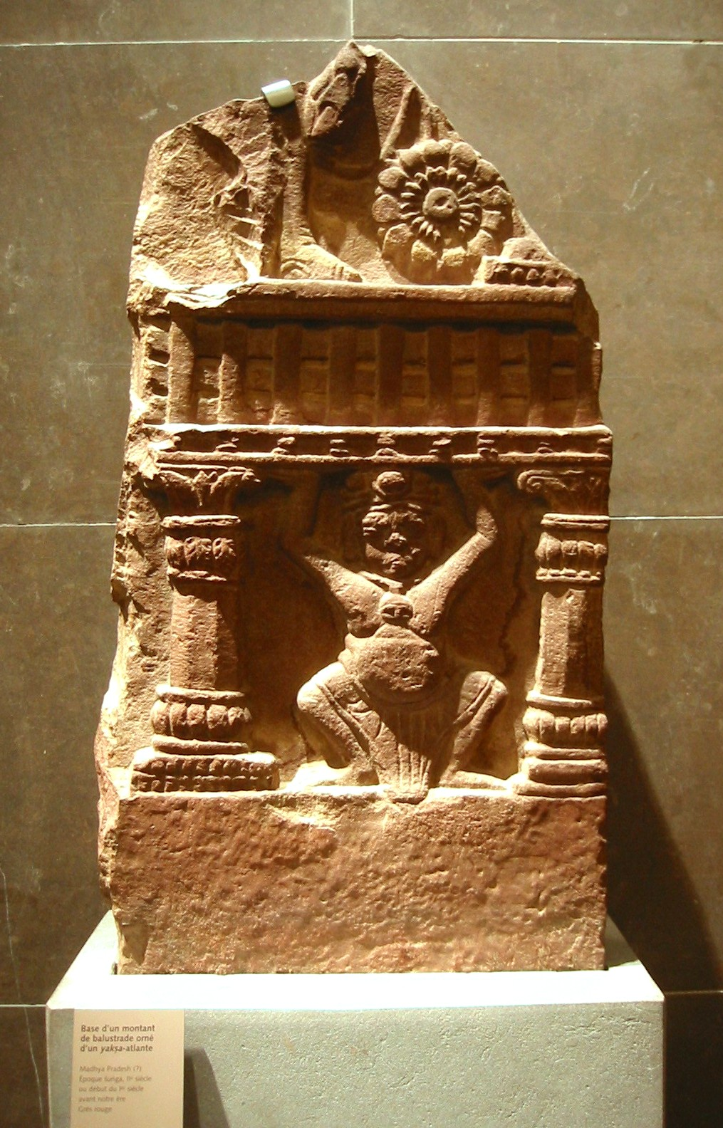 Balustrade-holding Yaksa, Madhya Pradesh (?), Sunga period (2nd-1st century BCE). Musée Guimet. Personal photograph 2005.